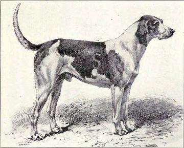 Poitevin Hound from 1915